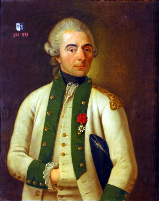 Capitain Antoine de Pradines d'Aureilhan